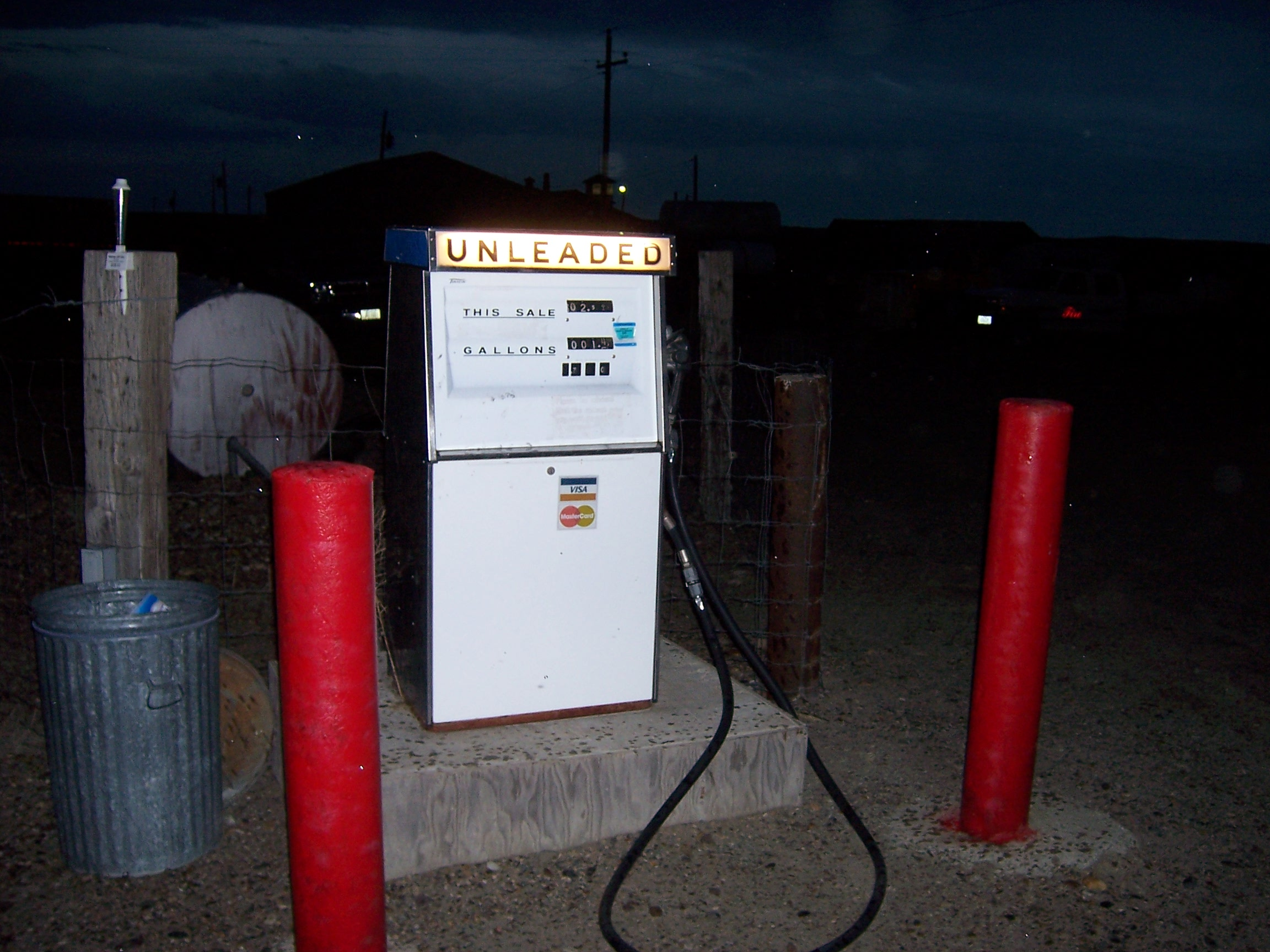 The town gas pump in Ingomar, Montana.